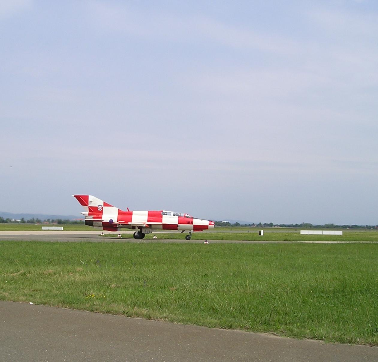 MiG-21UM Croatian air force